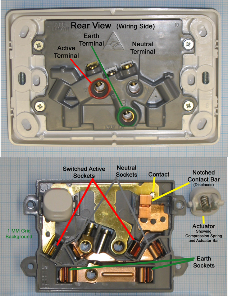 Showing the Wiring Side and internal construction of a typical Australian dual 3 pin (230 V, 10 A) socket outlet. (One switch is dismantled to show its operation.)